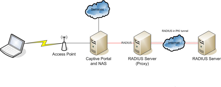 This diagram shows remote RADIUS AAA using a proxy server.